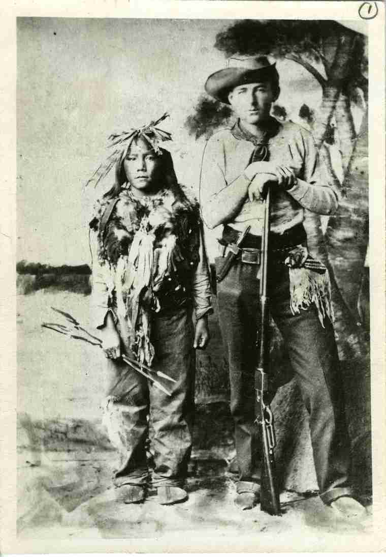 This photograph is part of a collection of images used by Reg Taylor of the Saskatoon Star Phoenix in an article he wrote which featured William Bleasdell Cameron, a survivor of the so-called Frog Lake Massacre, 2 April 1885. A photograph of William Bleasdell Cameron, guide and scout with the Alberta Field Force, with Horse Child, 12 year old son of Big Bear. They were photographed together in Regina in 1885 during the trial of Big Bear. Cameron testified in Big Bear's defense. Cameron wrote a description of the photo on the reverse side which was also scanned for this record.